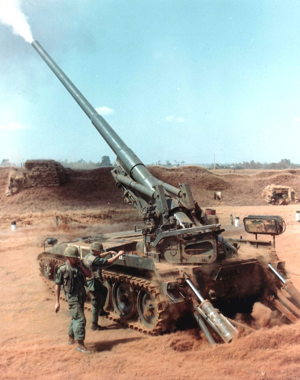 M-107, 175mm gun during Operation San Angelo, Vietnam, 1968.